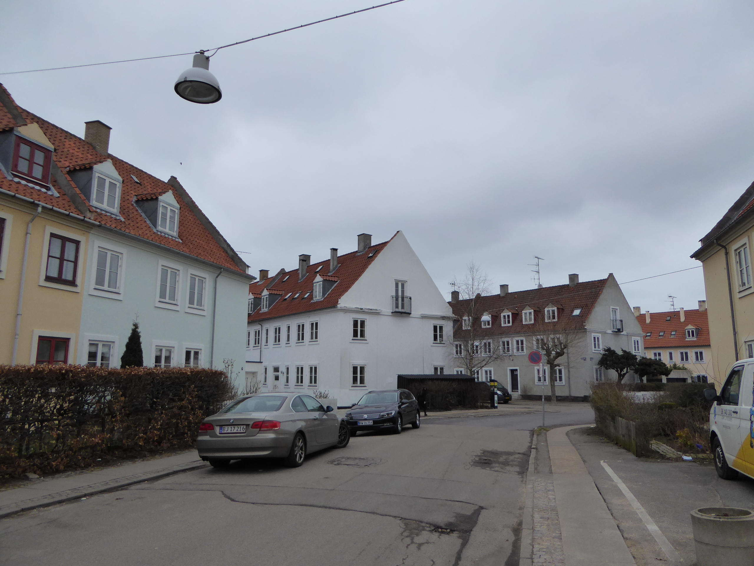 The street Gyritegade in the neighborhood Vibekevang in Østerbro in Copenhagen.